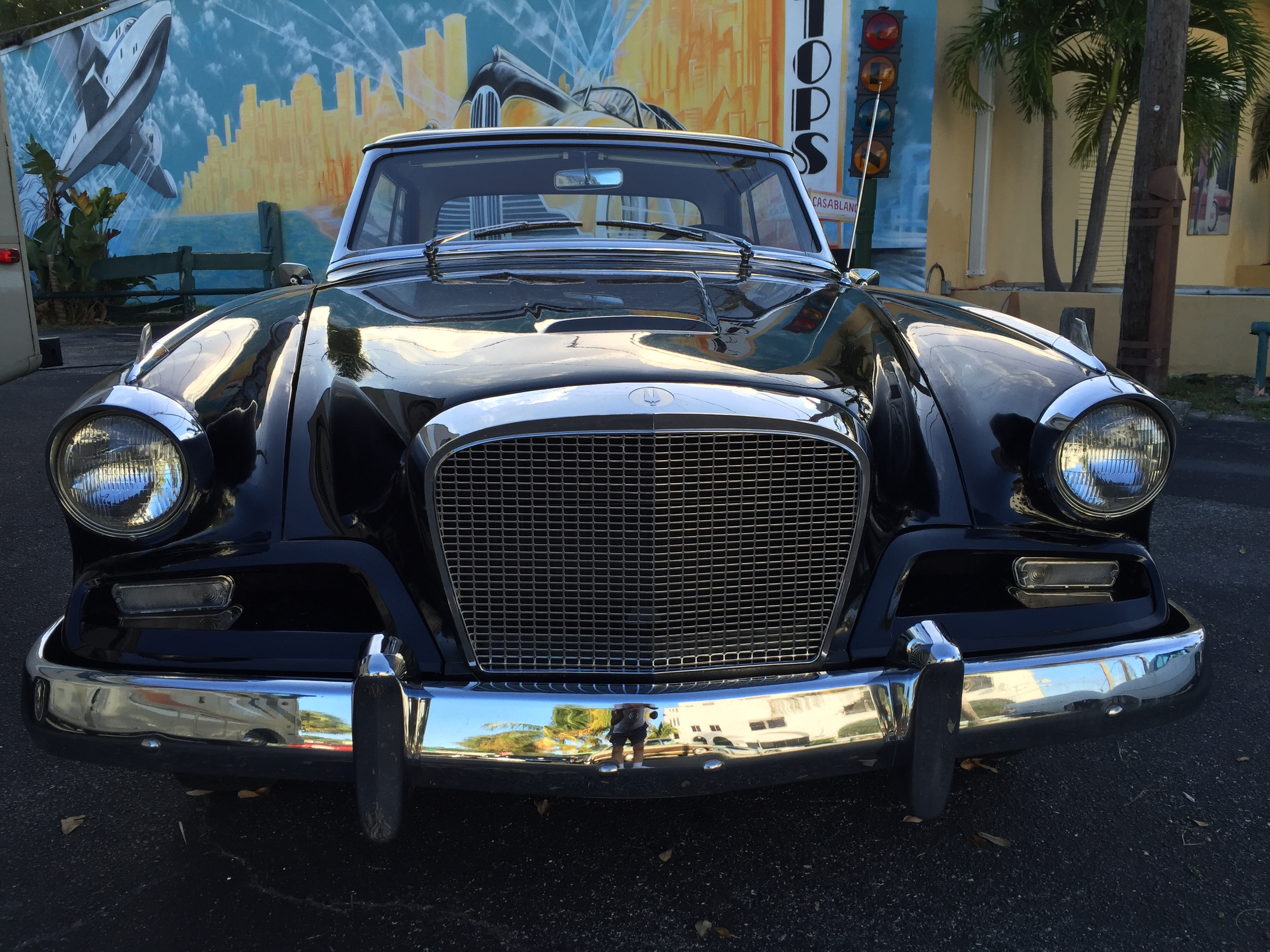 1962 Studebaker Gran Turismo Hawk. A sporty coupe finished in black with a red interior and equipped with the standard 289 cubic-inch (4.7 L) V8 engine and three-speed manual transmission with an overdrive unit. Picture taken in West Palm Beach, Florida.